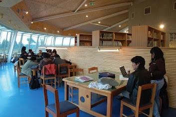 Learning spaces at new library of Universidad Católica de Temuco in Temuco. Supported by MECESUP Program